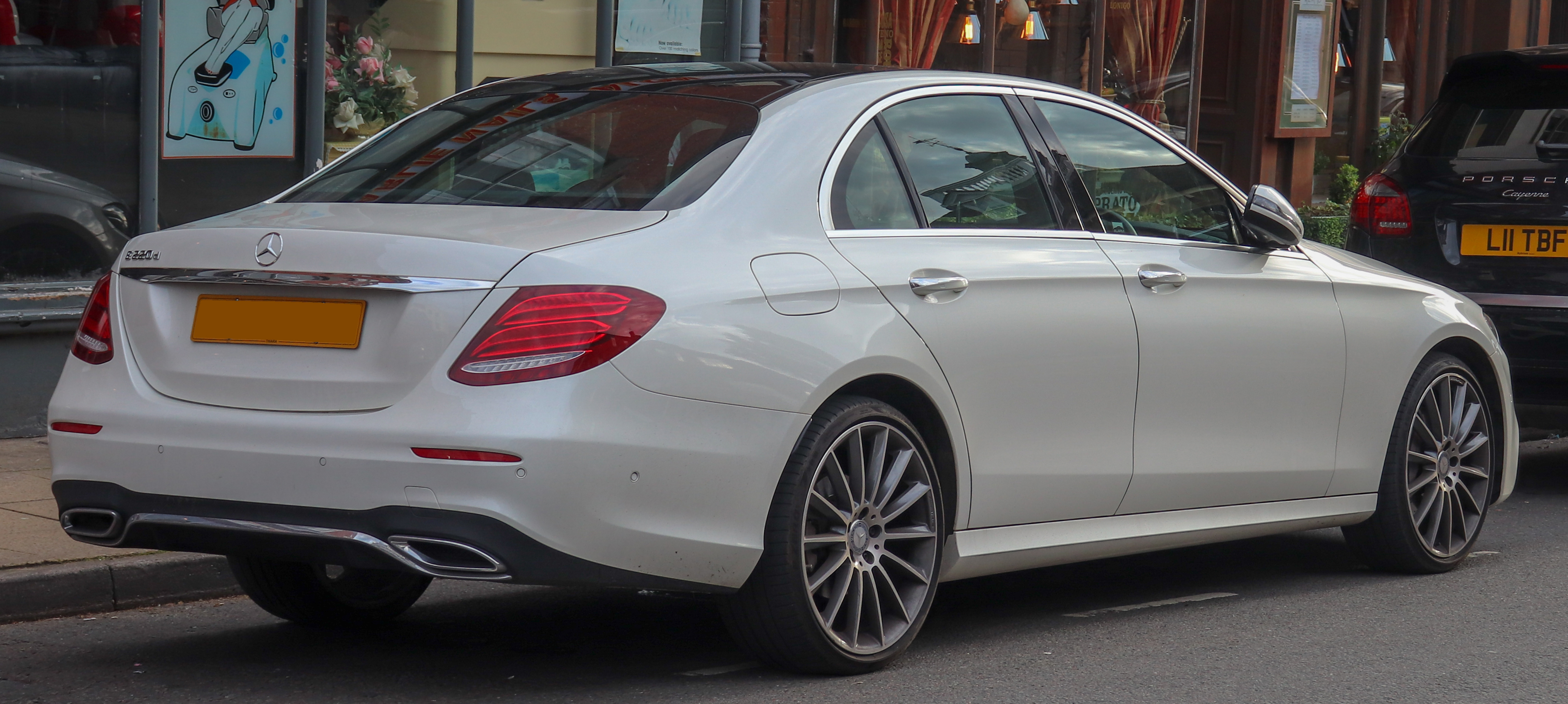 2016 Mercedes-Benz E220d AMG Line Premium+ 2.0 Rear Taken in Warwick